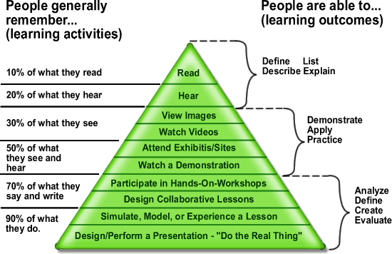 Edgar Dale's Cone of Learning does not contain percentages as listed here. It relates to abstraction vs concrete and the greater use of senses.